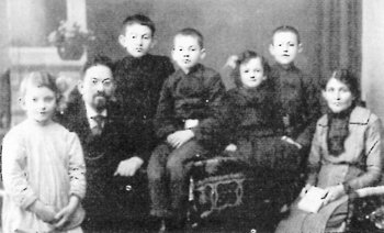 Бейлис с семьей Beilis with his family